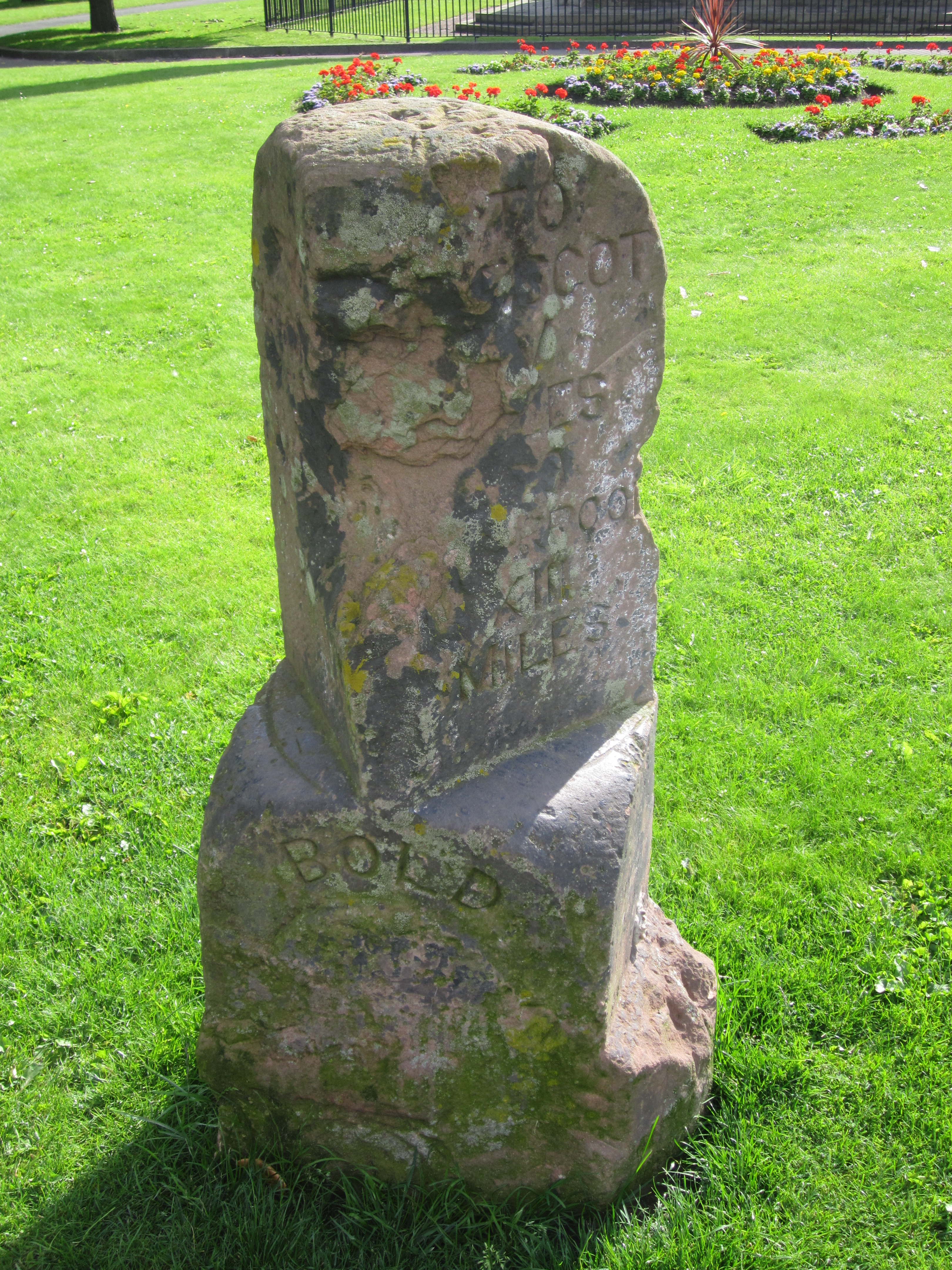 Photo taken at Victoria Park, Widnes, Cheshire, England.